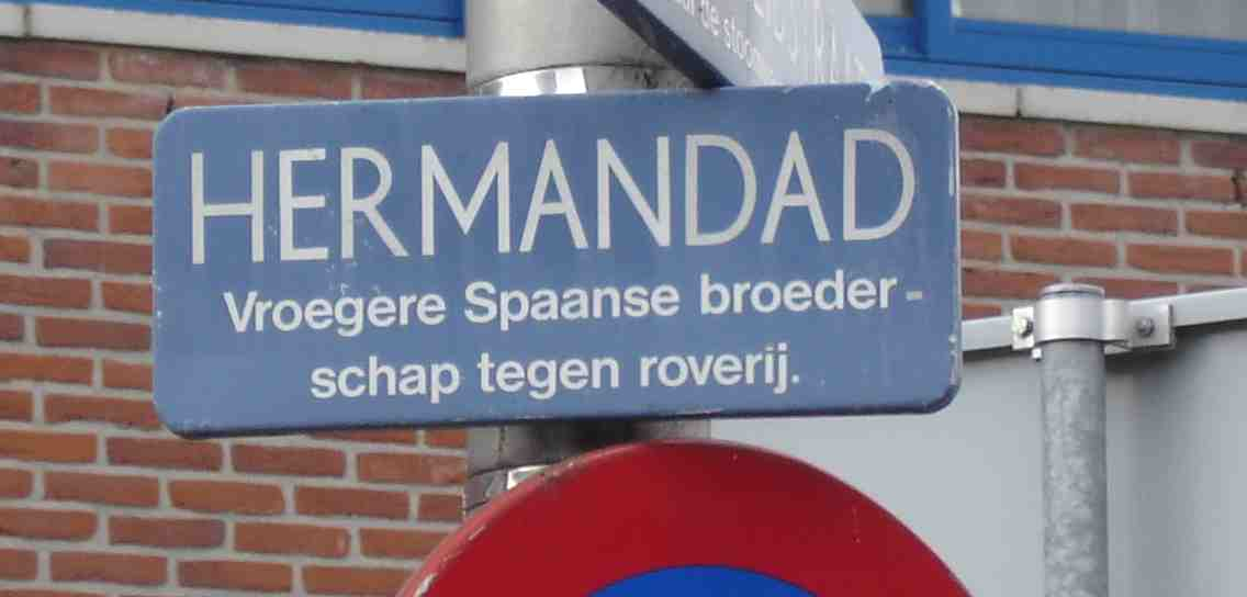 street name Hermandad in Enschede, the Netherlands